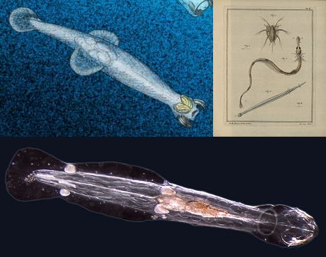 Chaetognatha and some examples of their diversity; compilation.